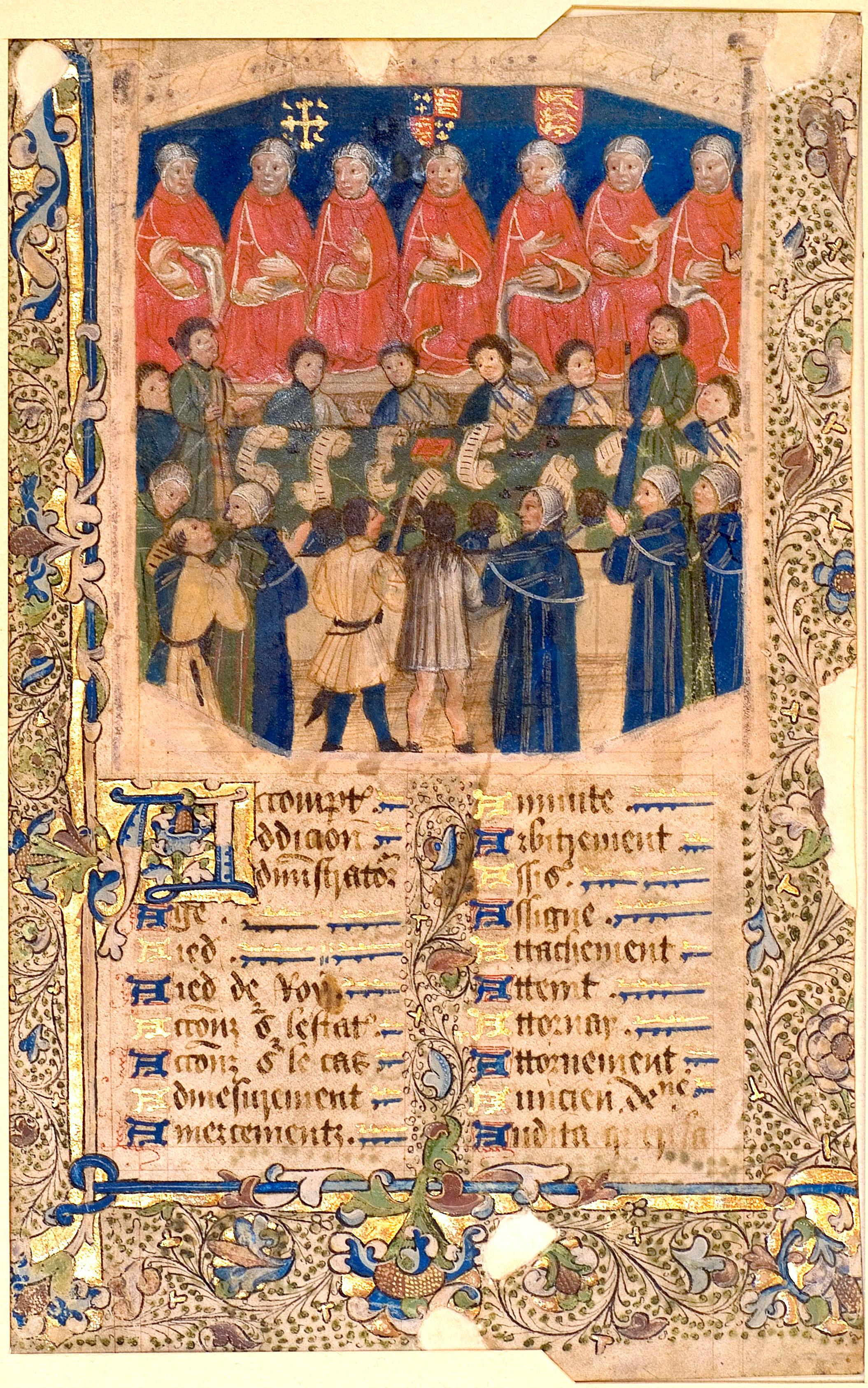 An illuminated manuscript of the Court of Common Pleas in session